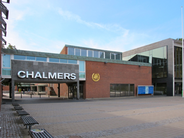 Chalmers University of Technology: Entrance